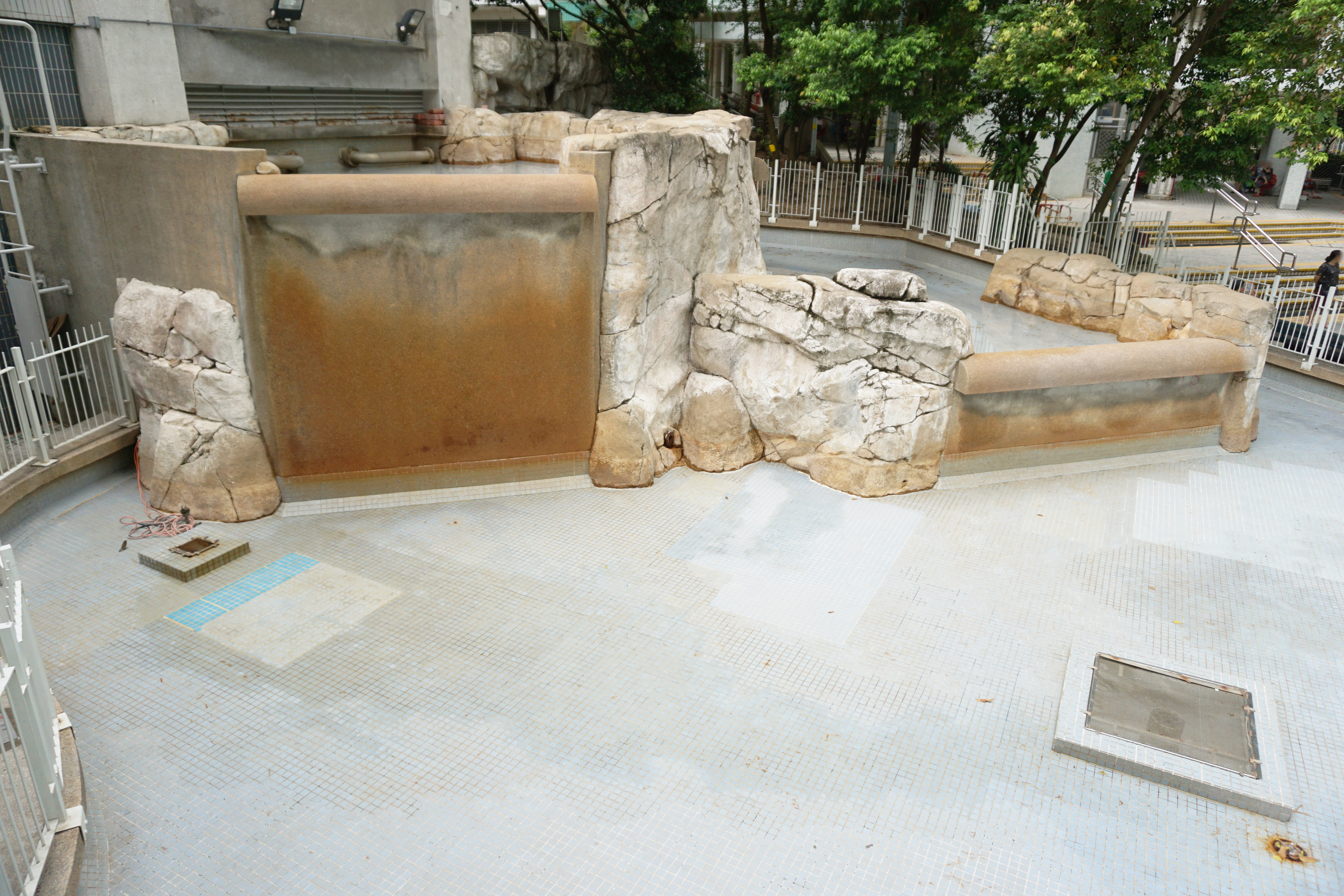 Tai Wo Hau Estate in Tai Wo Hau, Hong Kong.